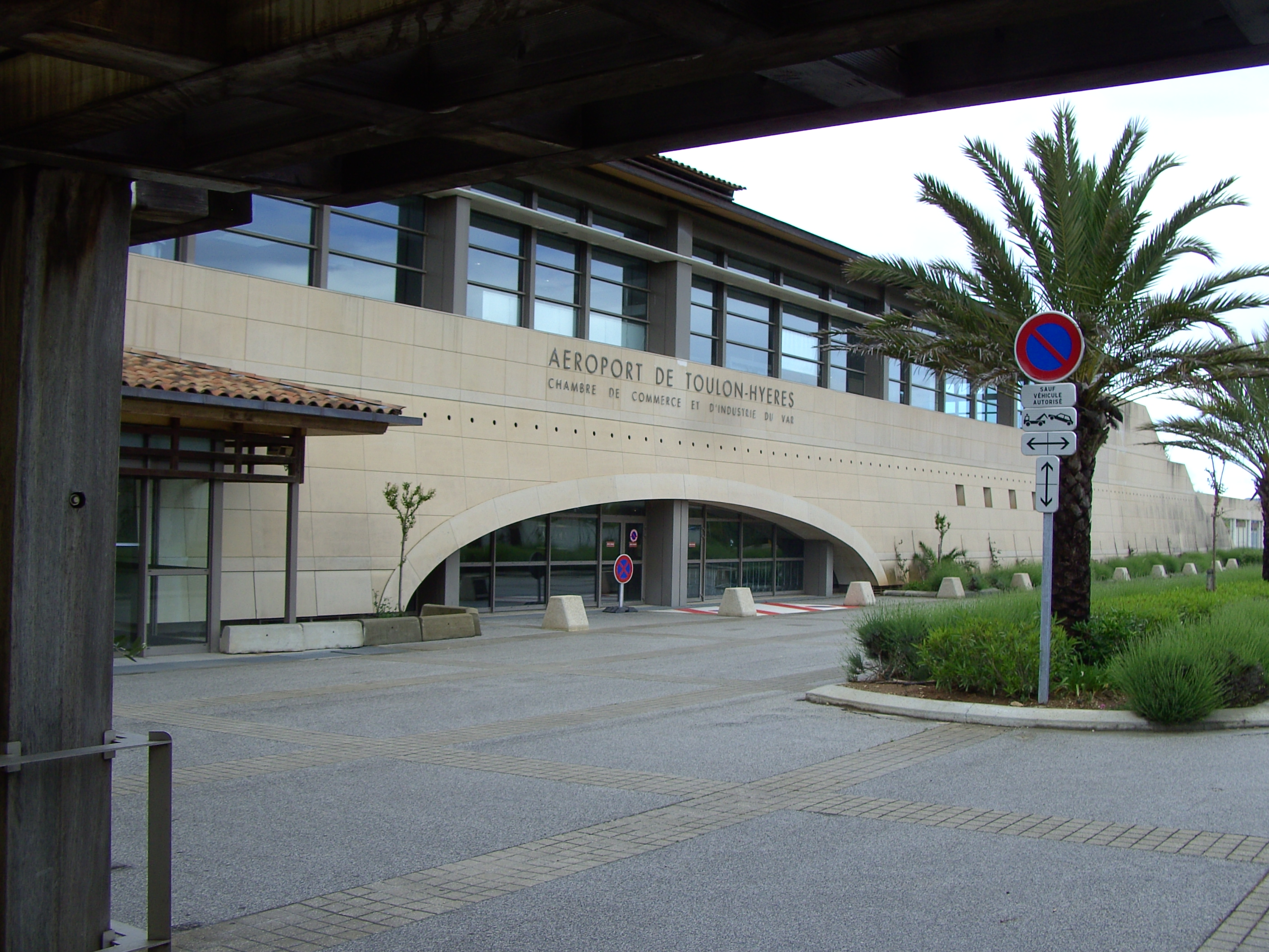 Toulon-Hyères terminal building